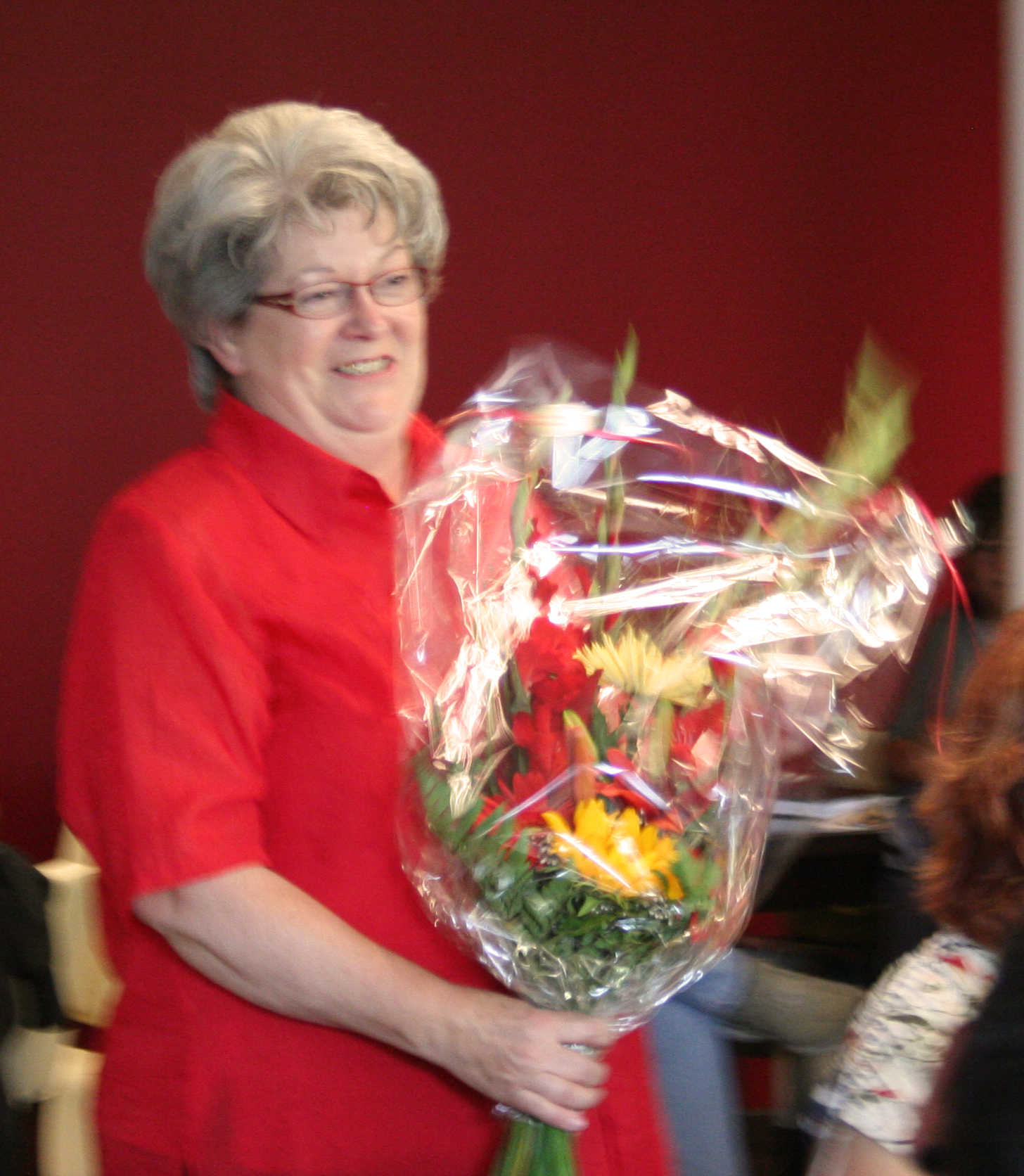 Edith Franke, MdL